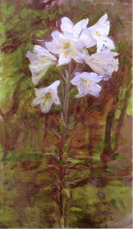 Lilies. Private collection. Painting - oil on canvas. Height: 66.04 cm (26 in.), Width: 38.1 cm (15 in.).